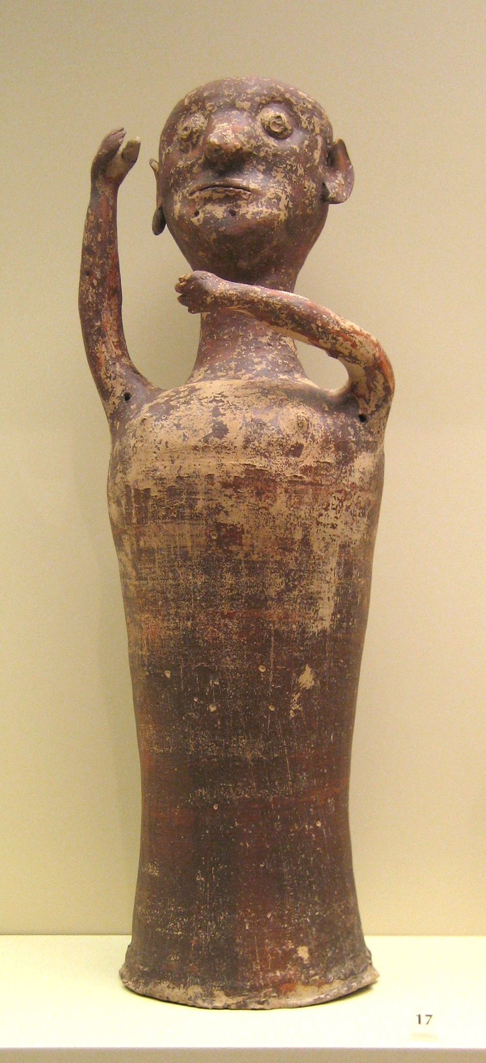 Anthropomorphic figure from Mycenae in Greece (1250-1180 BC). Found in room 19 of the palace. On display in the museum at the excavation site.